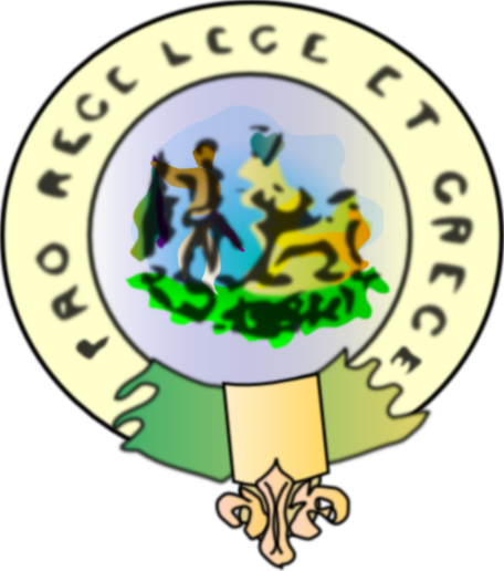 Seal of Griqualand East 1867